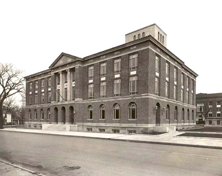 Mason City, Iowa U.S. Post Office and Court House (1932) Completed in 1932. Supervising Architect: James A. Wetmore Building used by the U.S. District Court for the Northern District of Iowa. Still in use as a post office.